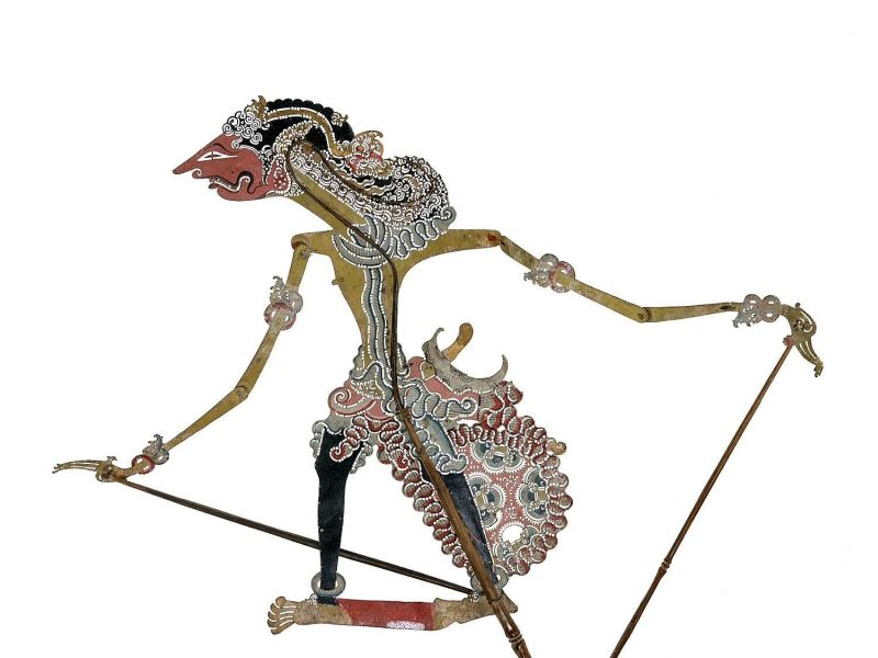 Wayang kulit figure, representing Udawa